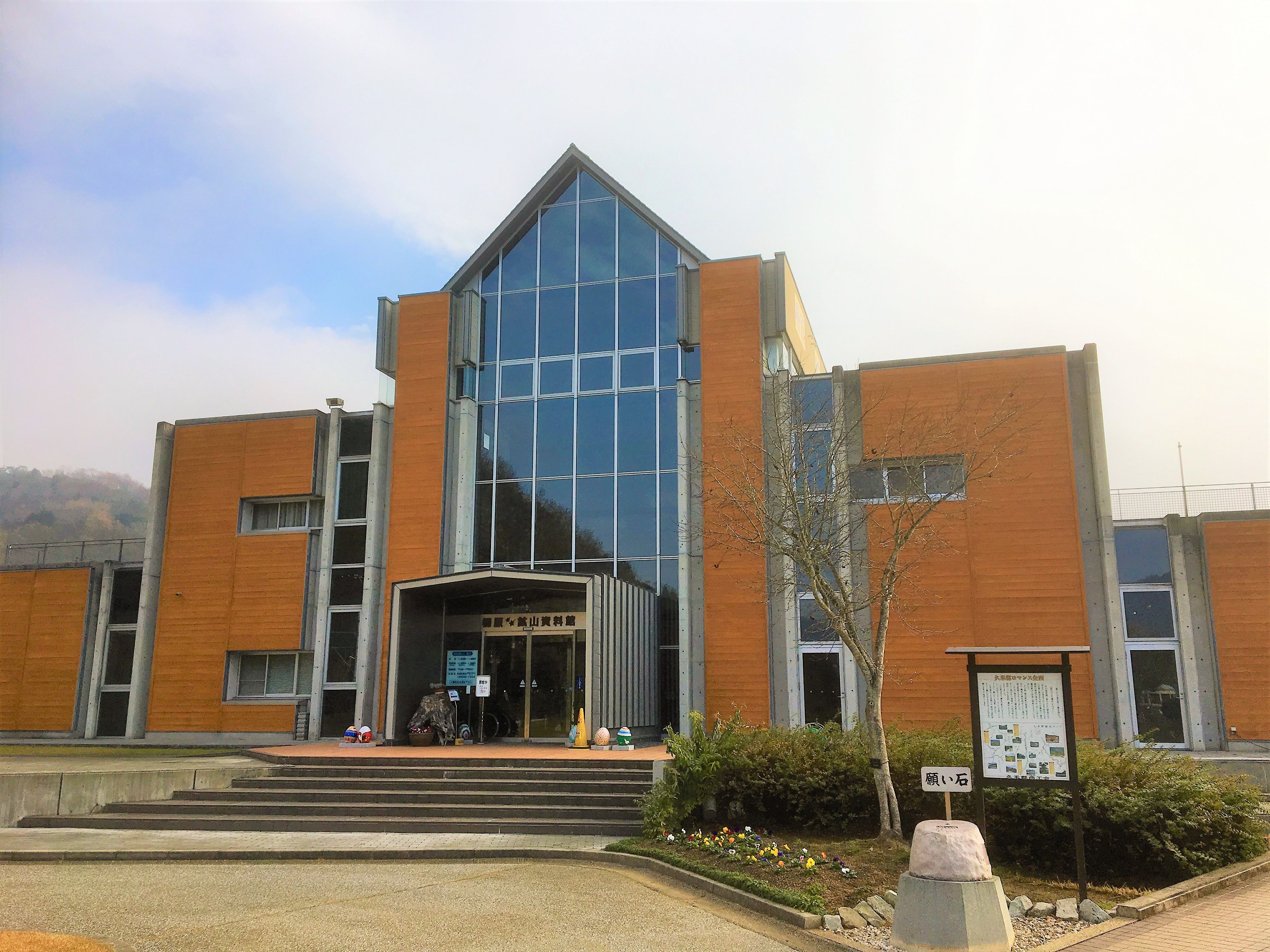 Yanahara Mine Museum misaki-town okayama-pref JAPAN 2016ｙ